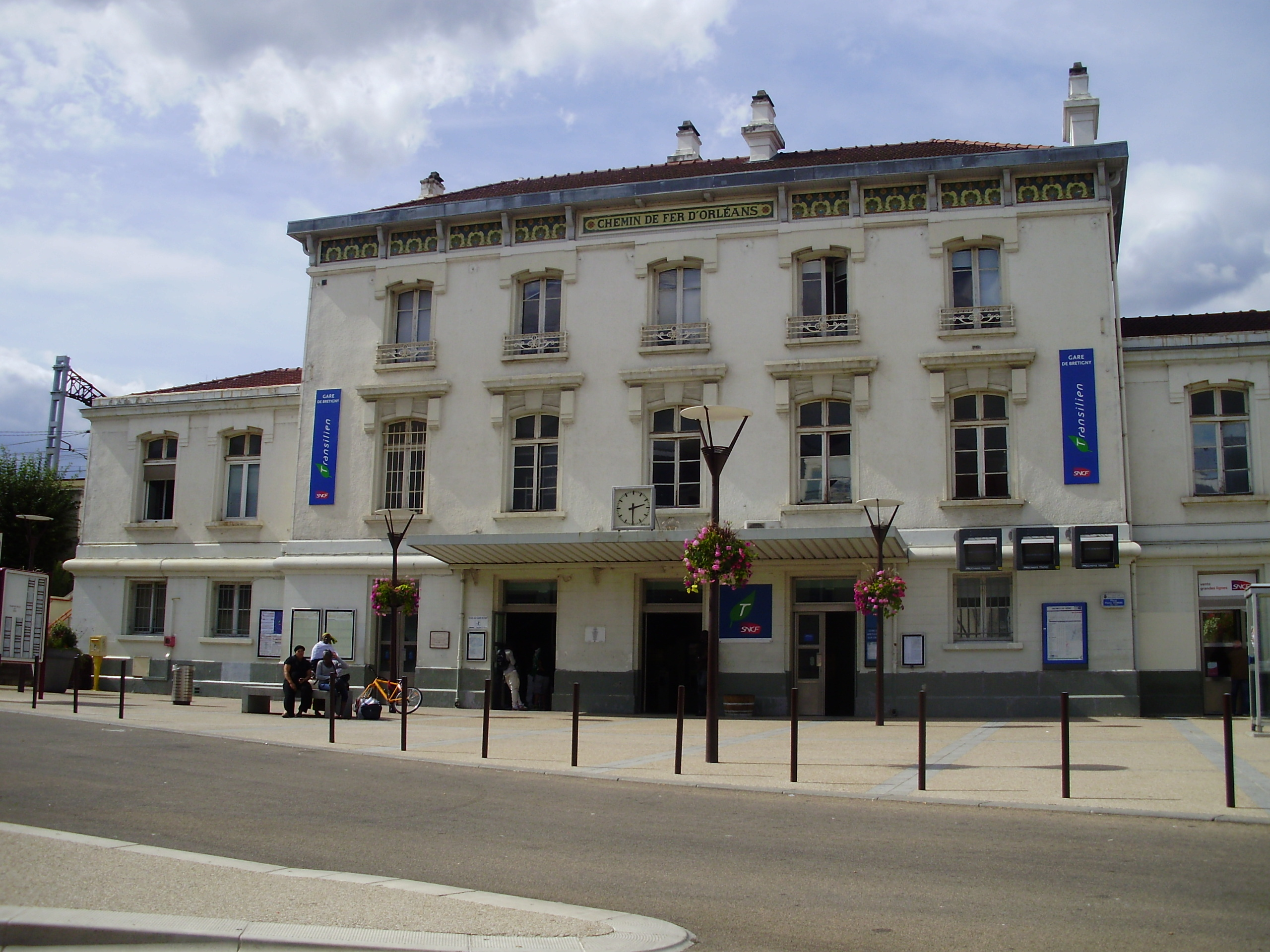 Brétigny station, in Brétigny-sur-Orge, Essonne, France (station building and principal entrance to the east of tracks)